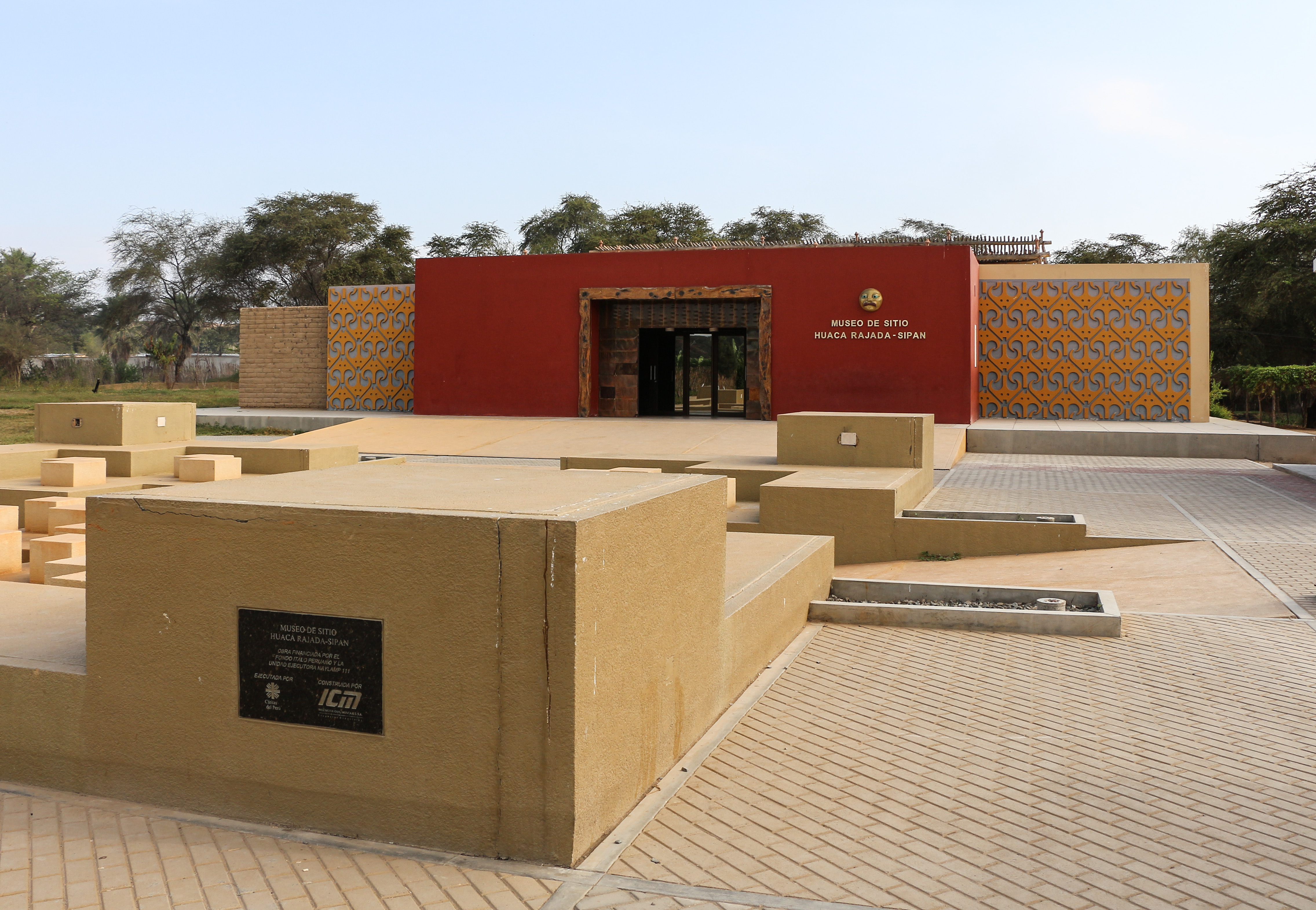 Museo de Sitio Huaca Rajada - Sipán, Peru